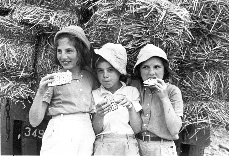 Title: Behatted girls with matzah Description: Young girls, possibly Youth Aliyah wards or members of a kibbutz, eat matzah while leaning against a truck full of hay bales, wearing sun hats. Creator/Photographer: unknown Medium: Black and white photographic print Date: 1960s Call Number: Subjects-Alphabetical-Box 1-Holidays-Passover Location: Record Group 18 / Photographs Collection: Hadassah Collection on Long Term Loan to the American Jewish Historical Society Repository: American Jewish Historical Society Rights Information: No known copyright restrictions; may be subject to third party rights. For more copyright information, click here. See more information about this image and others at CJH Digital Collections. Digital images created by and appears courtesy of Hadassah, the Women's Zionist Organization of America, Inc.